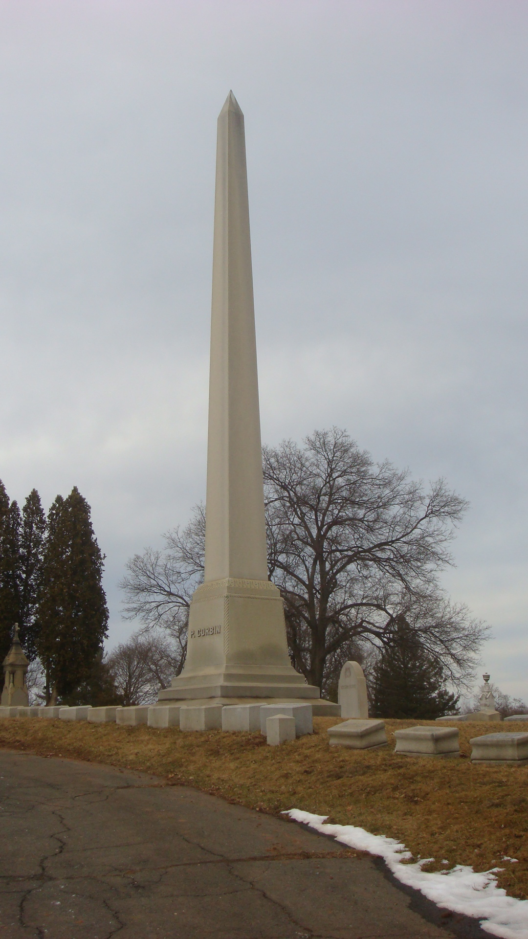 The grave marker of the Philip Corbin family. Fairview cemetery, New Britain, Connecticut